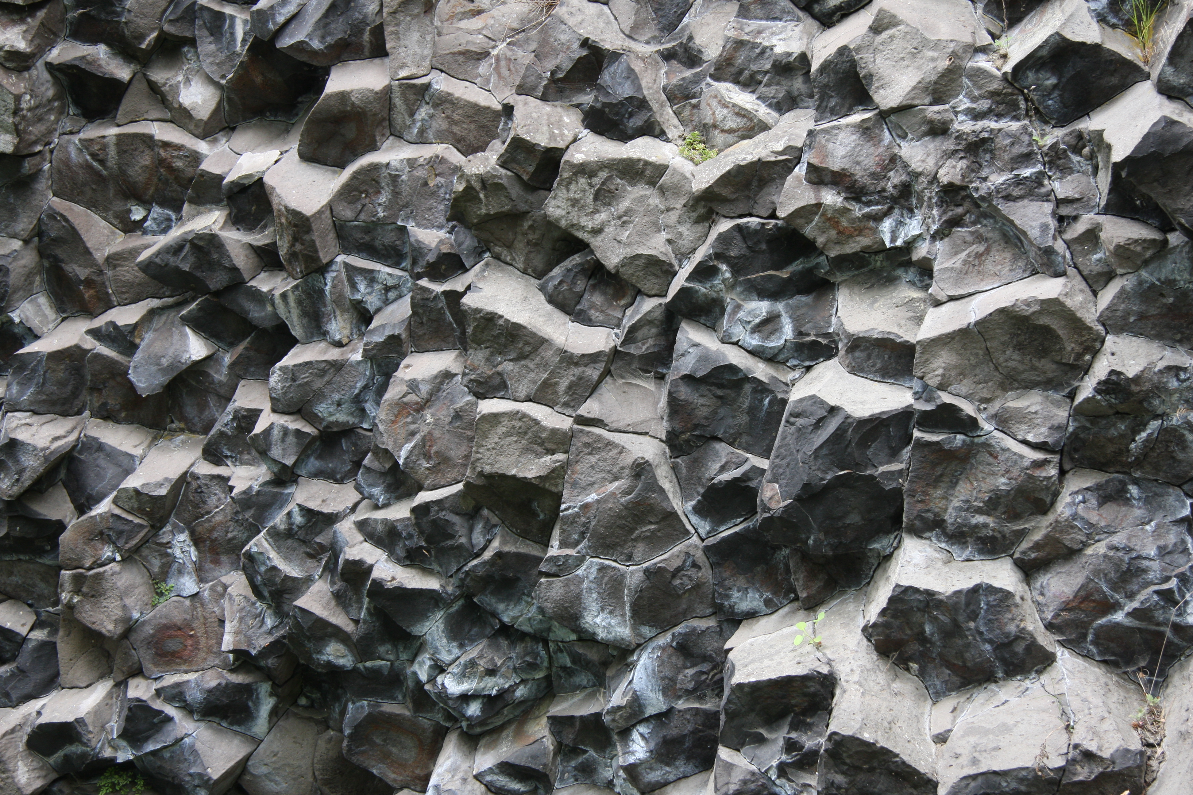 Basalt outcrops, Parkstein, Bavaria, Germany.